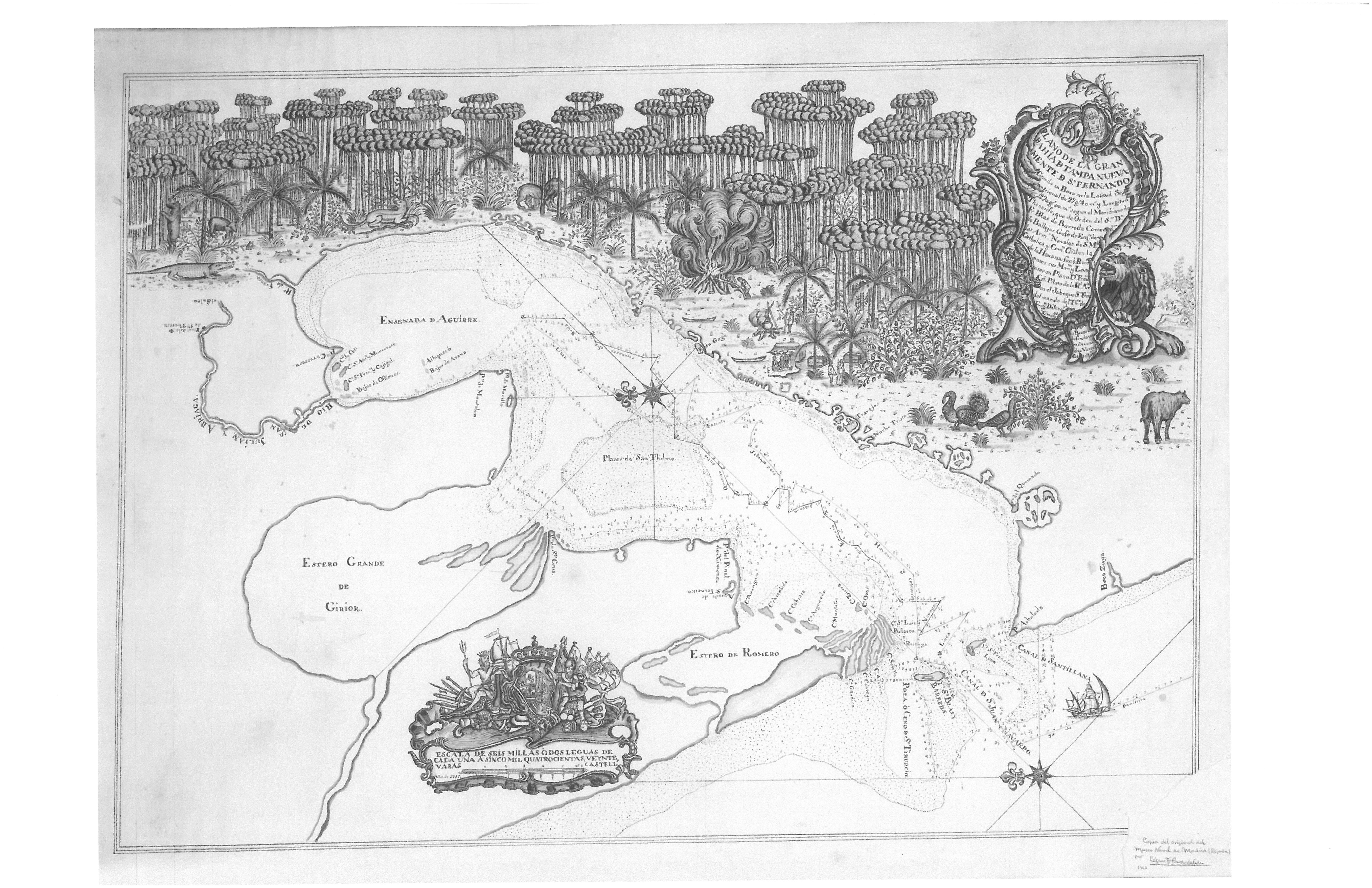 The earliest known map of the Tampa Bay area. It is by Spanish explorer Don Francisco Maria Celi of the Spanish Royal Fleet, 1757. This copy is from the South Florida History Museum, the original is in the Museo Naval de Madrid, Spain. The river on the upper left of the map is the Hillsborough, the area designated as "El Pinal de la Cruz de Santa Teresa" is today in Temple Terrace. "El Salto" are the rapids at Hillsborough River State Park, where the journey ended. The map is oriented so that east is to the top.